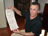 Mariano Lambea Castro